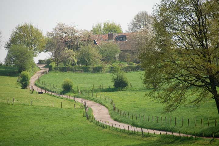 Kosberg (Mechelen) Kosberg